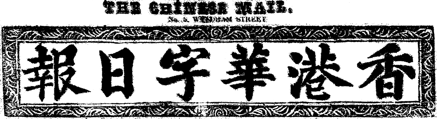 The Chinese Mail in 1895 粵語: 一八九五年，香港華字日報嘅報頭。